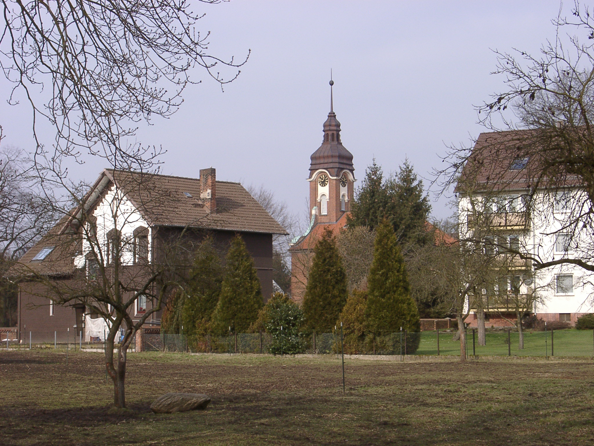 Garbsen - Church in Altgarbsen